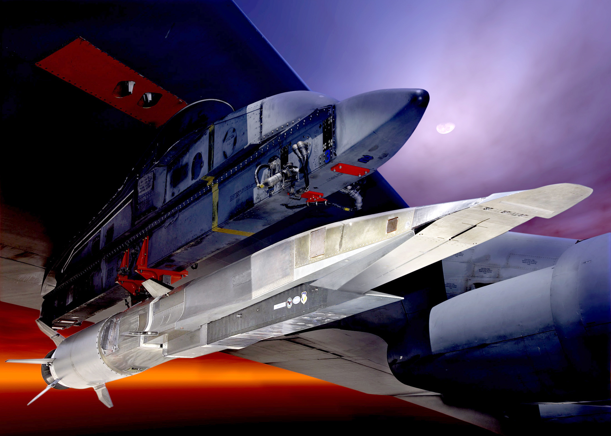 The X-51A Waverider, shown here under the wing of a B-52 Stratofortress, is set to demonstrate hypersonic flight. Powered by a Pratt & Whitney Rocketdyne SJY61 scramjet engine, it is designed to ride on its own shockwave and accelerate to about Mach 6.